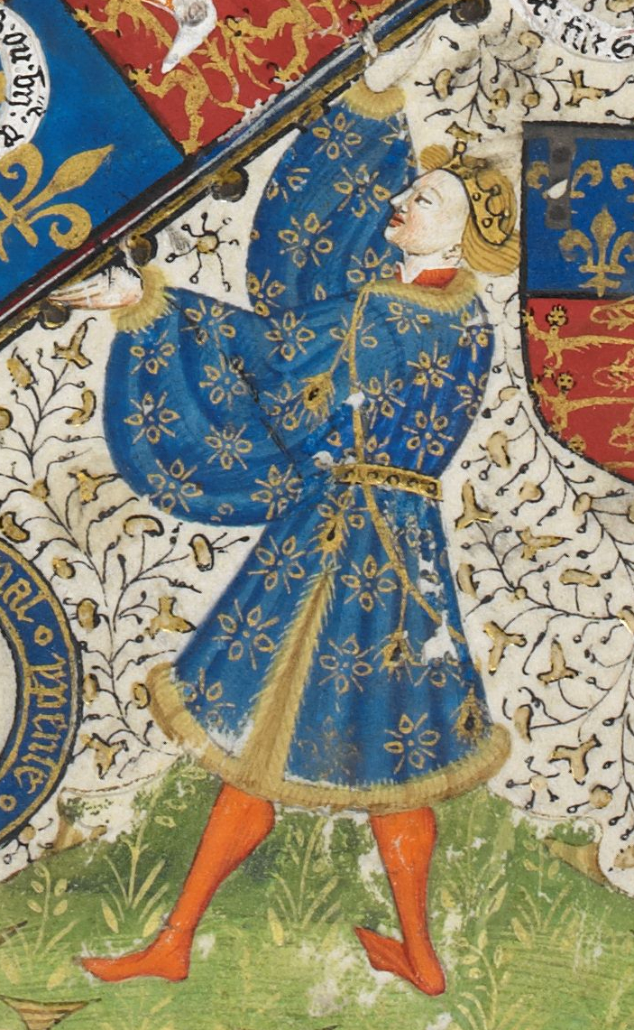 Detail from the frontispiece of the illuminated manuscript Talbot Shrewsbury Book. In this detail Richard of York is shown supporting a giant fleur-de-lys, tracing the ancestry of Henry VI back to Saint Louis IX and justifying Henry's claim to the kingdom of France.